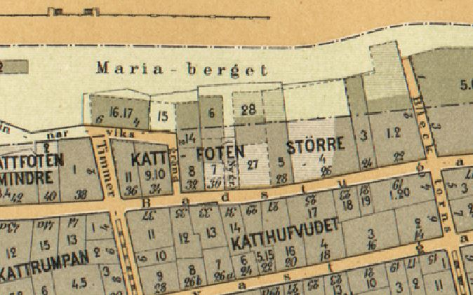 Part of a map from 1899 showing city blocks in district Södermalm in Stockholm, Sweden.